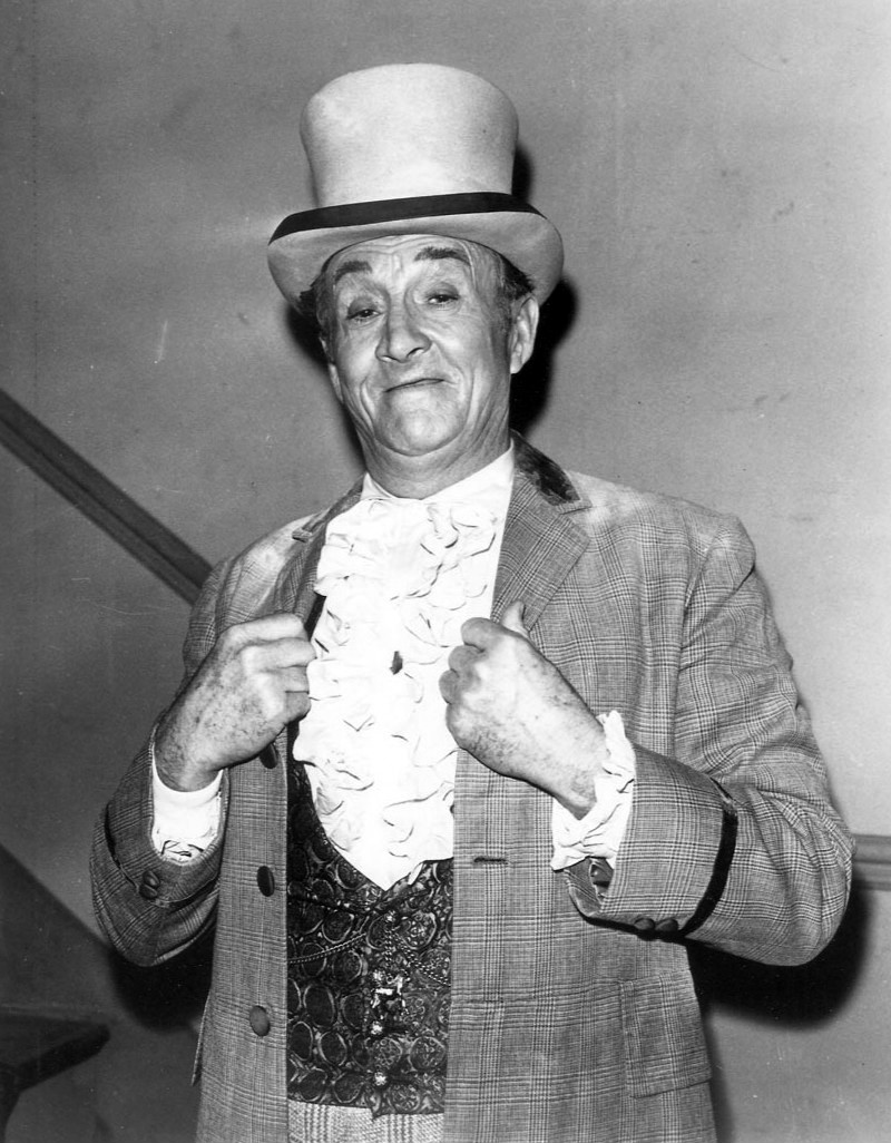 Photo of Paul Fix whose regular role on the television program The Rifleman was that of Sheriff Torrance. In this 1962 episode, "Guilty Conscience", Fix played a dual role. He is shown here as "Charming Billy Carraway".